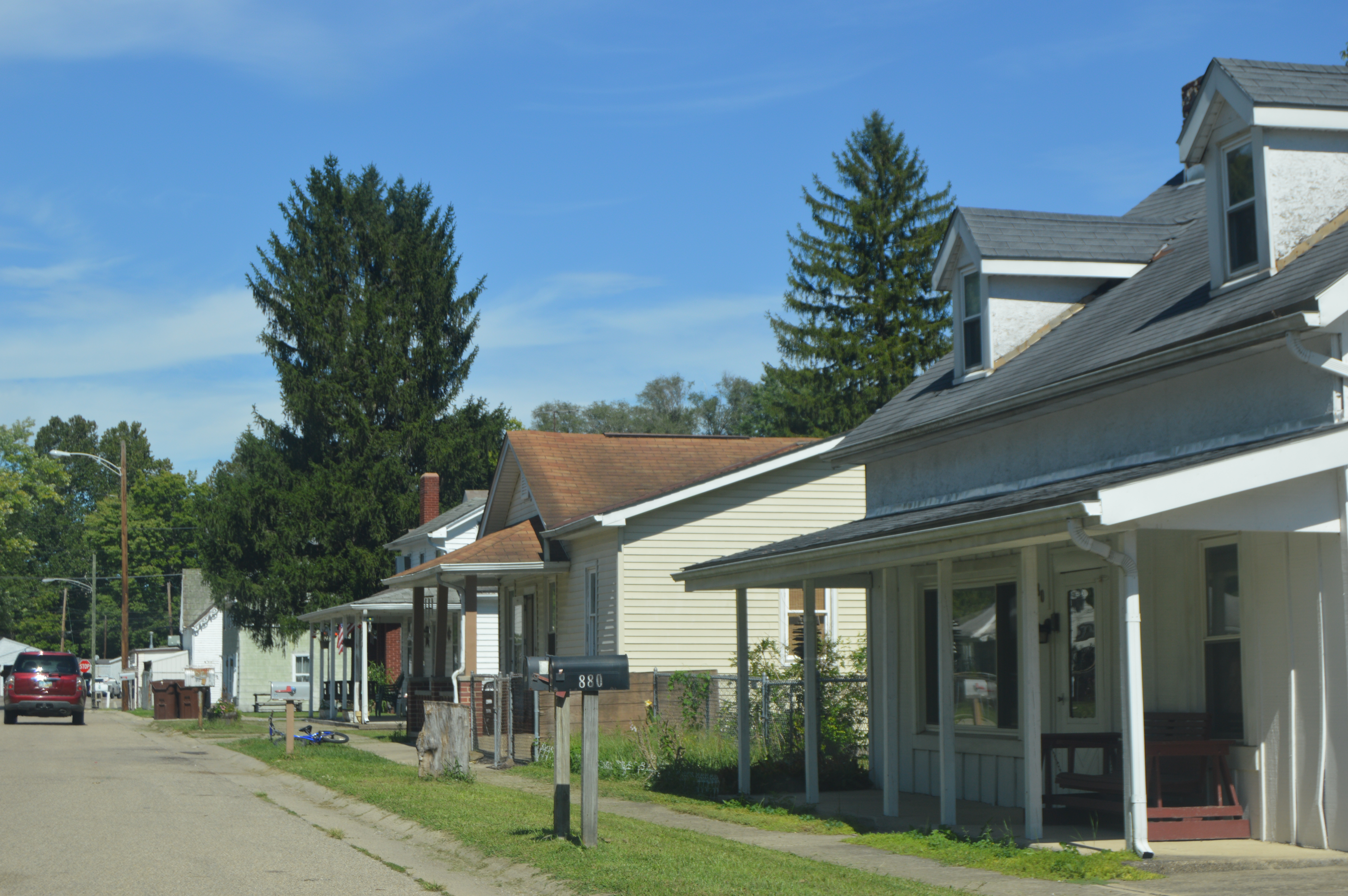 Houses on the eastern side of Liberty Street in Millville, Ohio, United States.